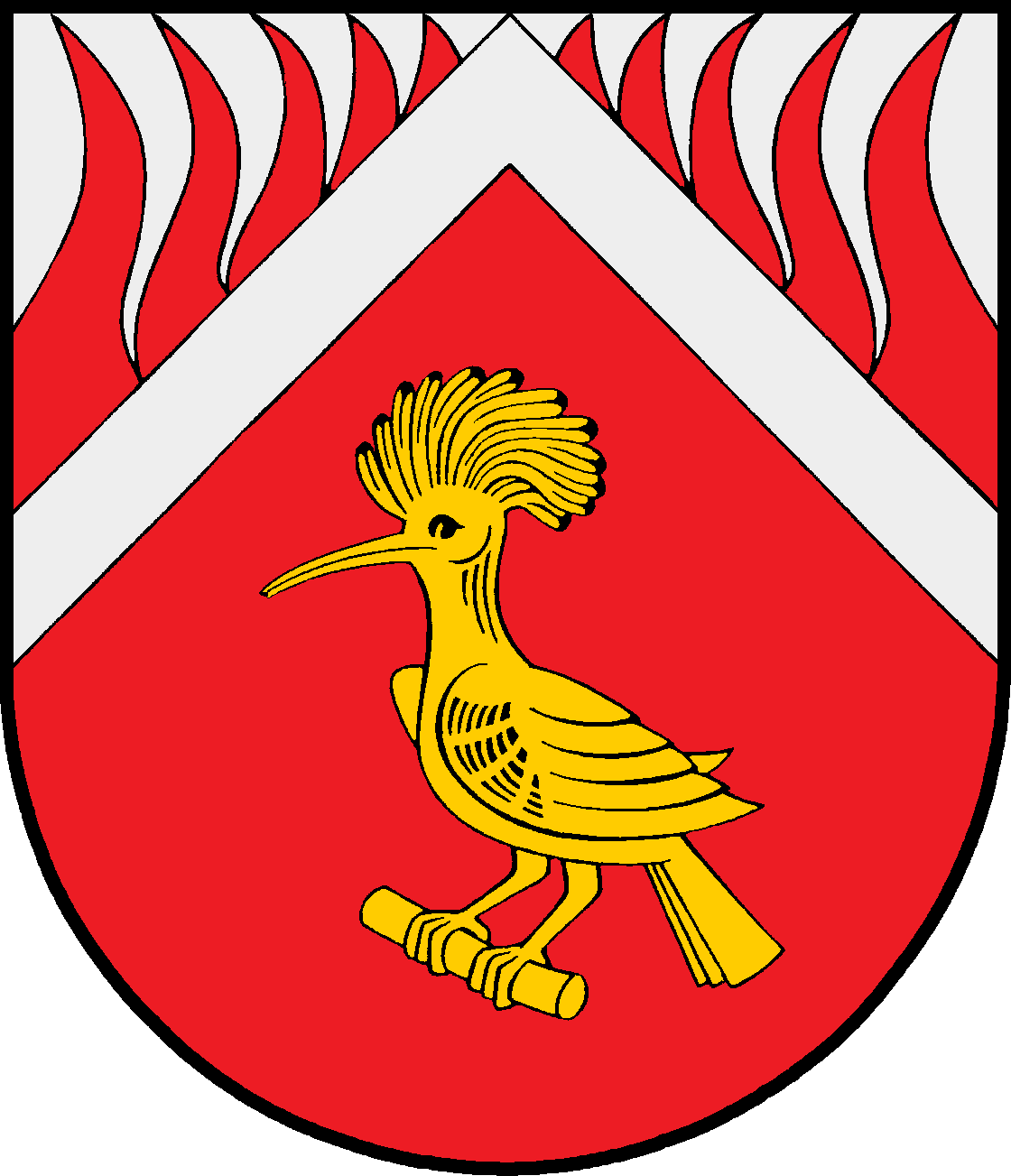 Coat of arms of the municipality Armstedt in Schleswig-Holstein, Germany.